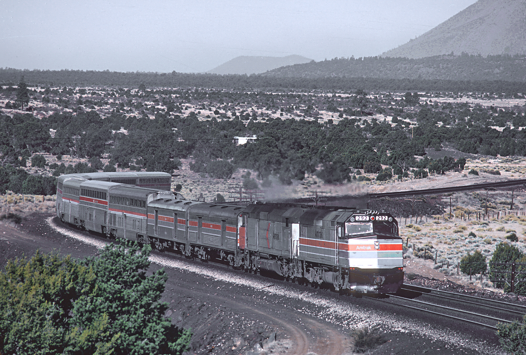 Note, the SDP40F had cables added to allow the F40PH's HEP to reach the Superliner Cars. A Roger Puta Photograph